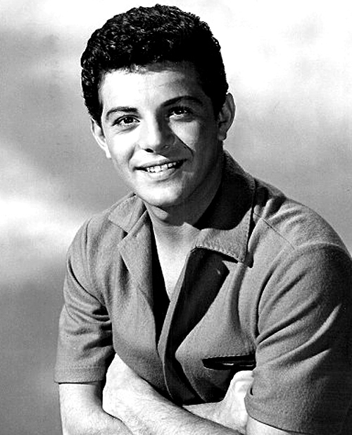 Publicity photo of Frankie Avalon for film Beach Party (1963).